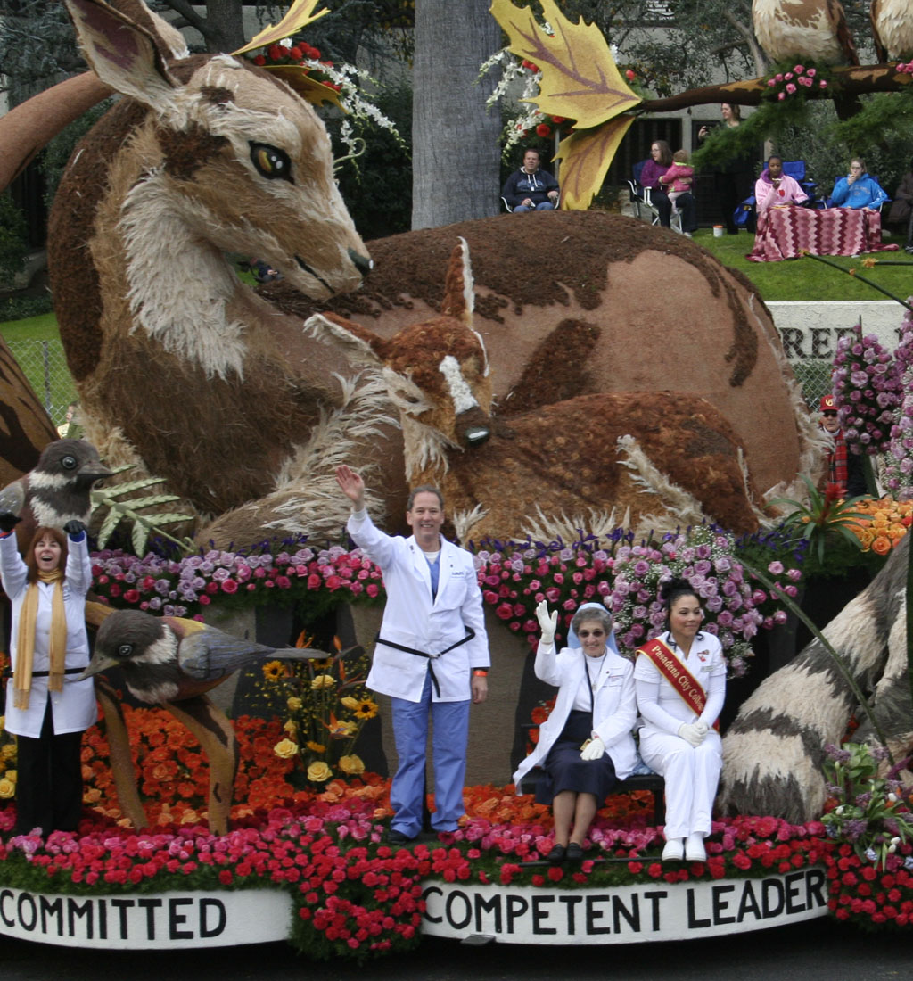 AAMN's Bob Patterson wearing scrubs upplied by Murse World on the Nurses' Float in the 2013 Rose Parade